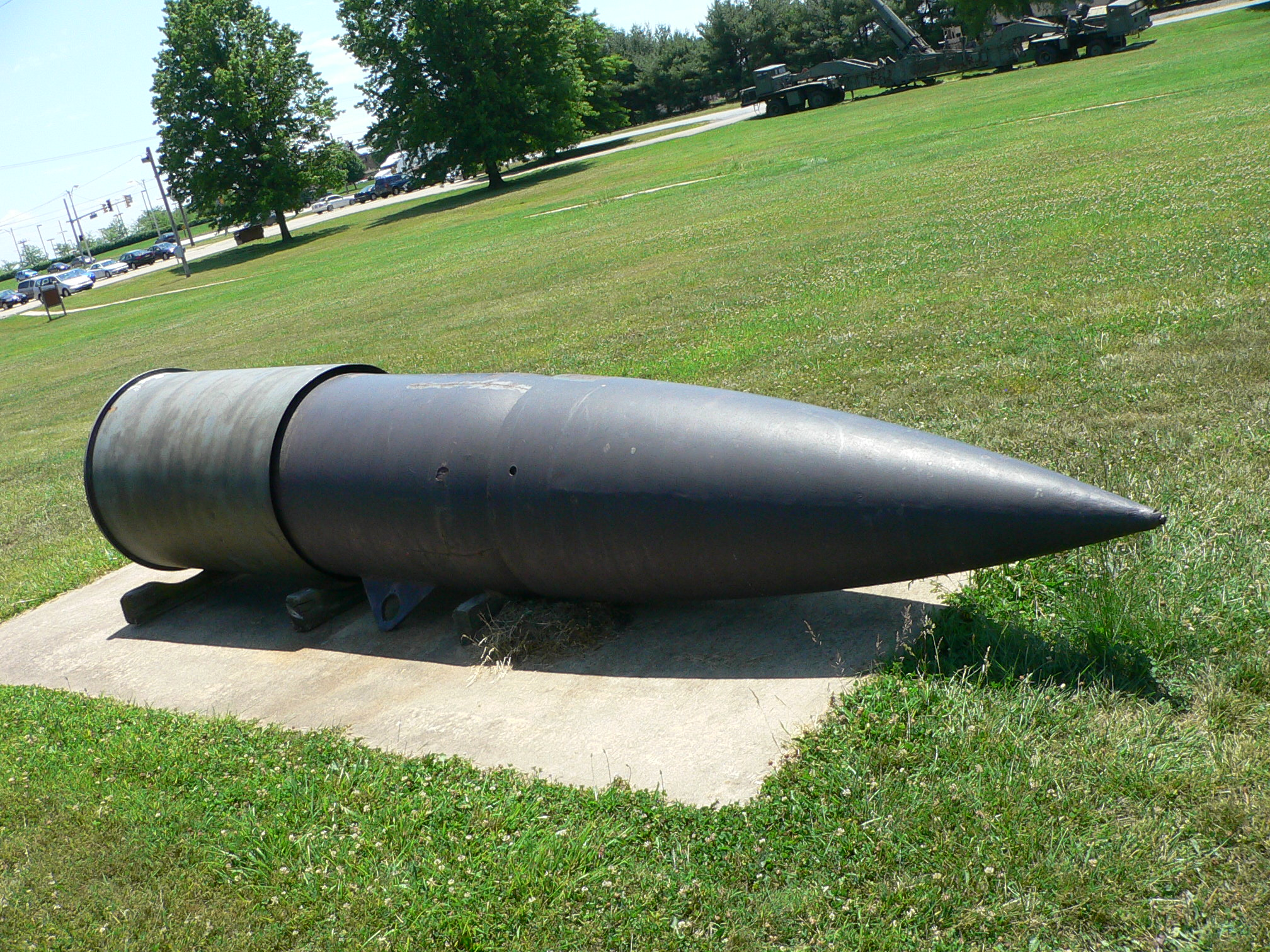 Schwerer Gustav projectile. Picture taken at the United States Army Ordnance Museum (Aberdeen Proving Ground, MD).